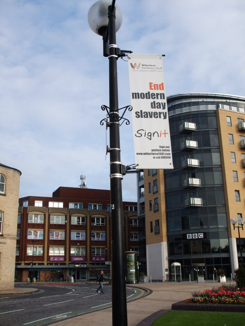 End slavery banner End slavery banner 2007 in Queens Gardens with the BBC offices in the background